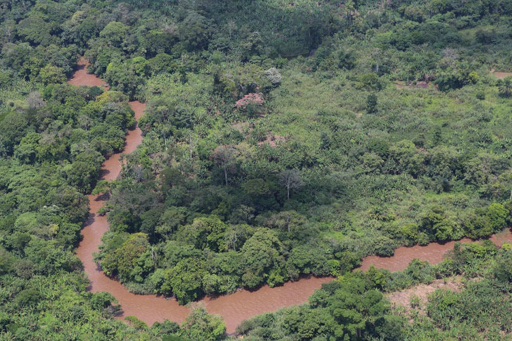 15 février 2015. Nord-Kivu, RD Congo. Vue aérienne de la forêt et d’une rivière. Photo MONUSCO/Myriam Asmani == 15 February 2015. North-Kivu, DR Congo. Aerial view of the forest and river. Photo MONUSCO/Myriam Asmani